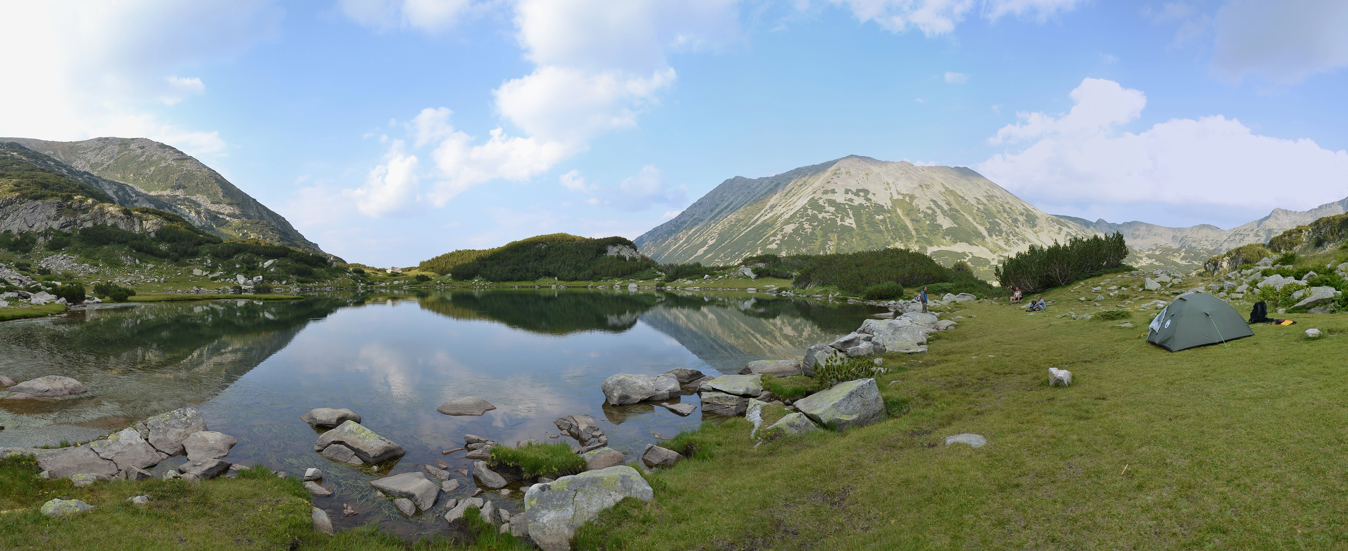 Muratovo Lake (Муратово езеро), Pirin, Bulgaria